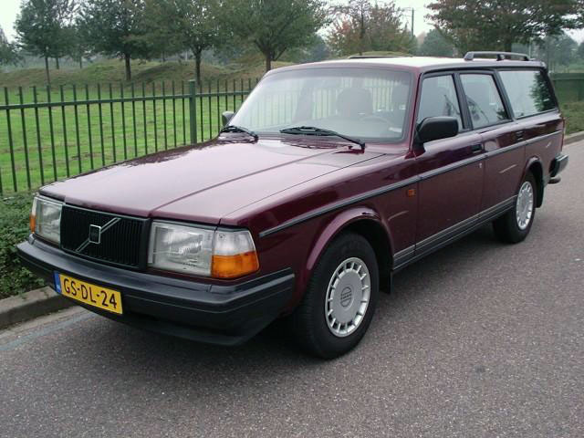 Image of Volvo 240 estate, Polar edition (Dutch license plates).